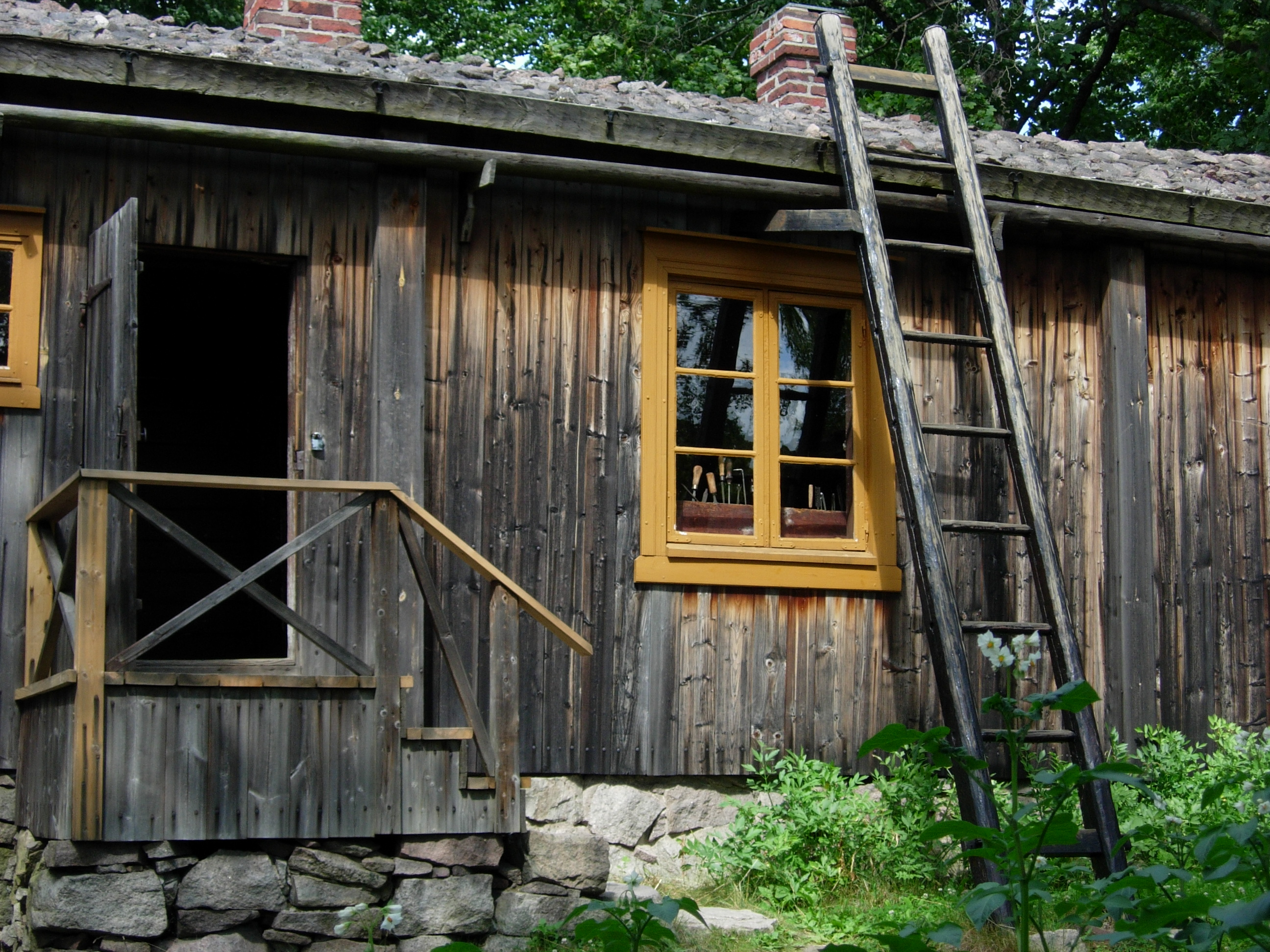 Luostarinmäki Handicrafts Museum, carriage-maker's